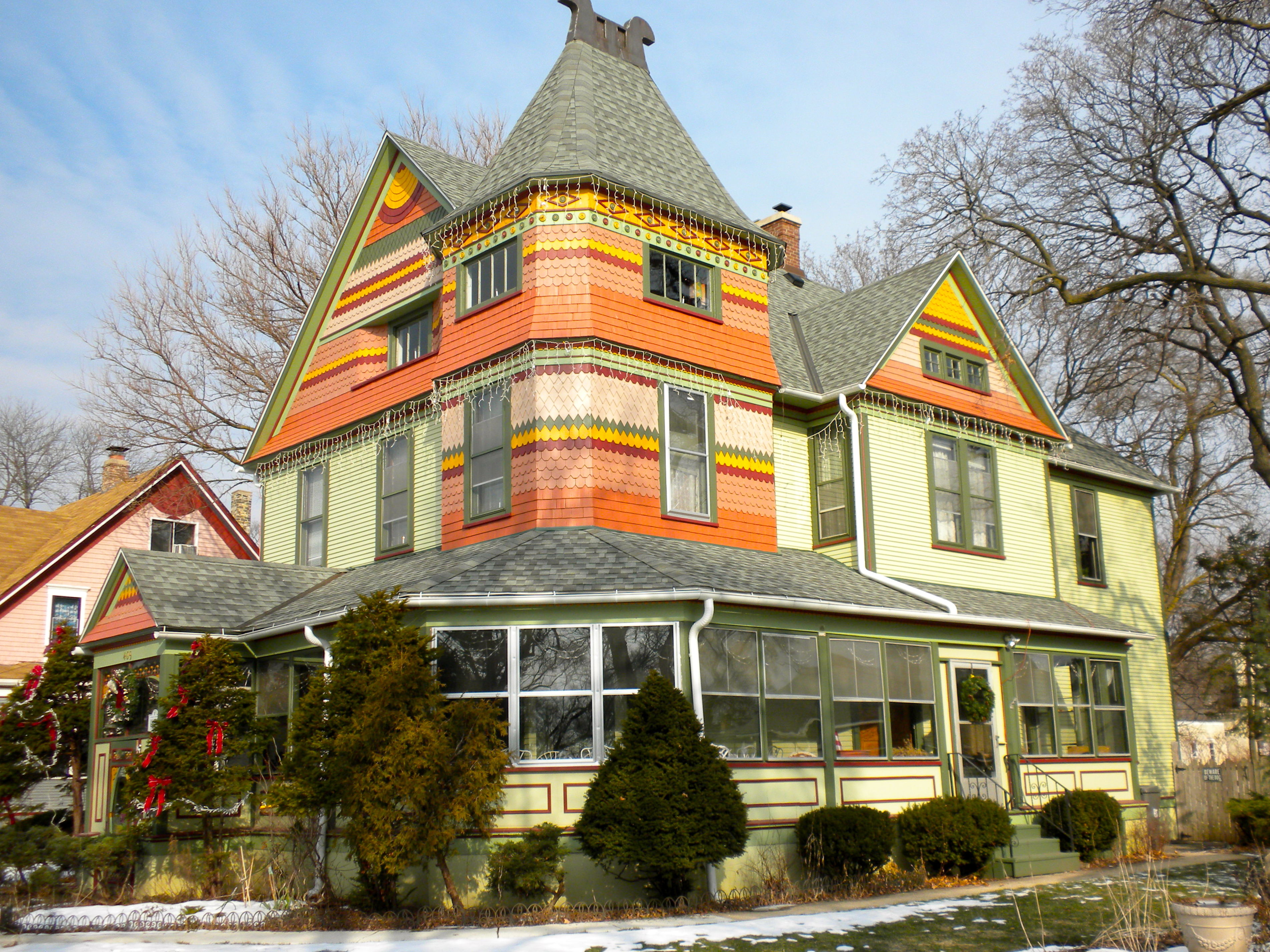 House in Spring-Douglas Historic District in Elgin, Illinois, on NRHP since April 28, 2000. District runs roughly Spring St. and Douglas Ave., bet. River Bluff Rd. and Kimball Ave. North of downtown